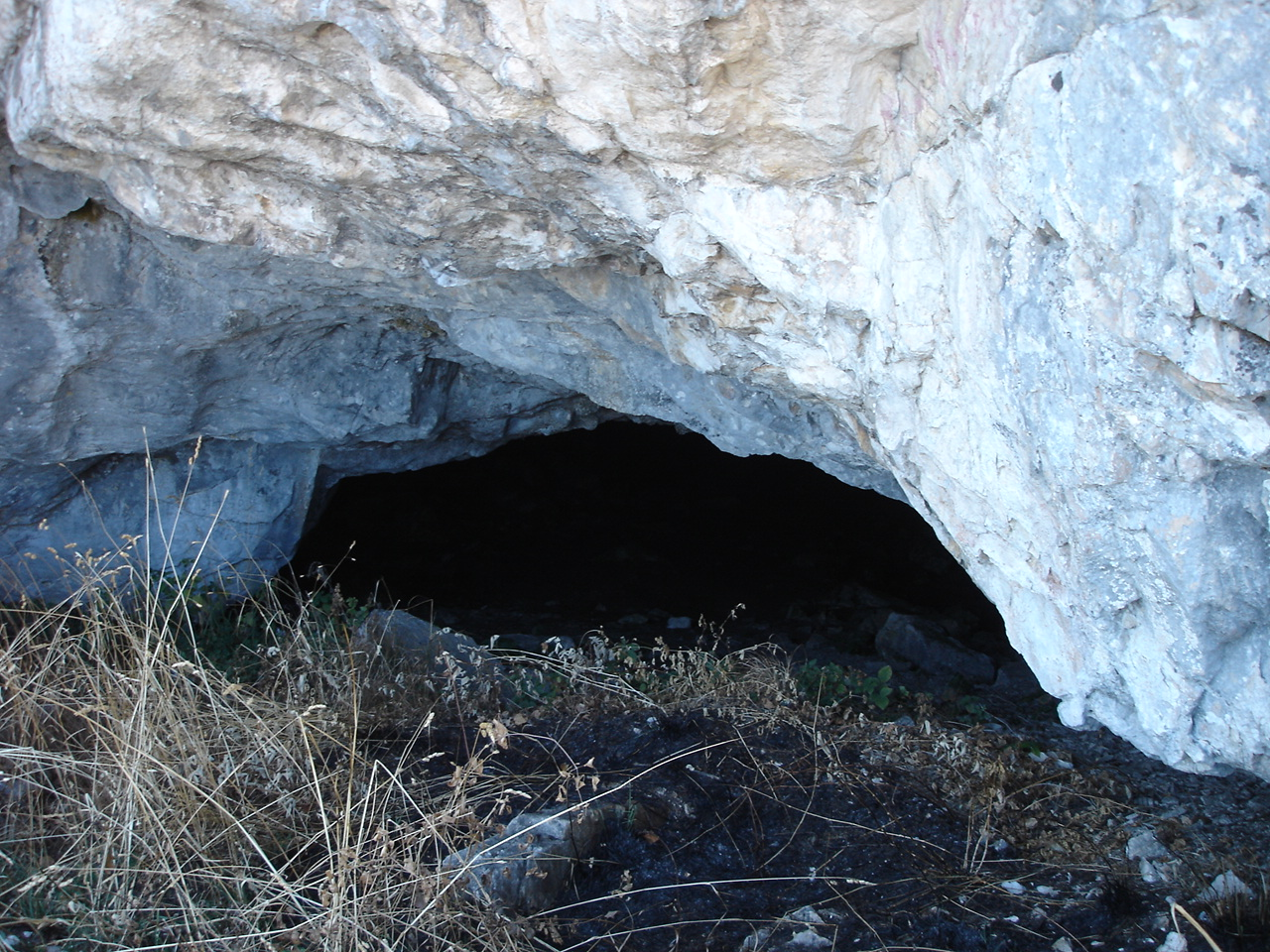 Duova Cave, near Prilep, Macedonia